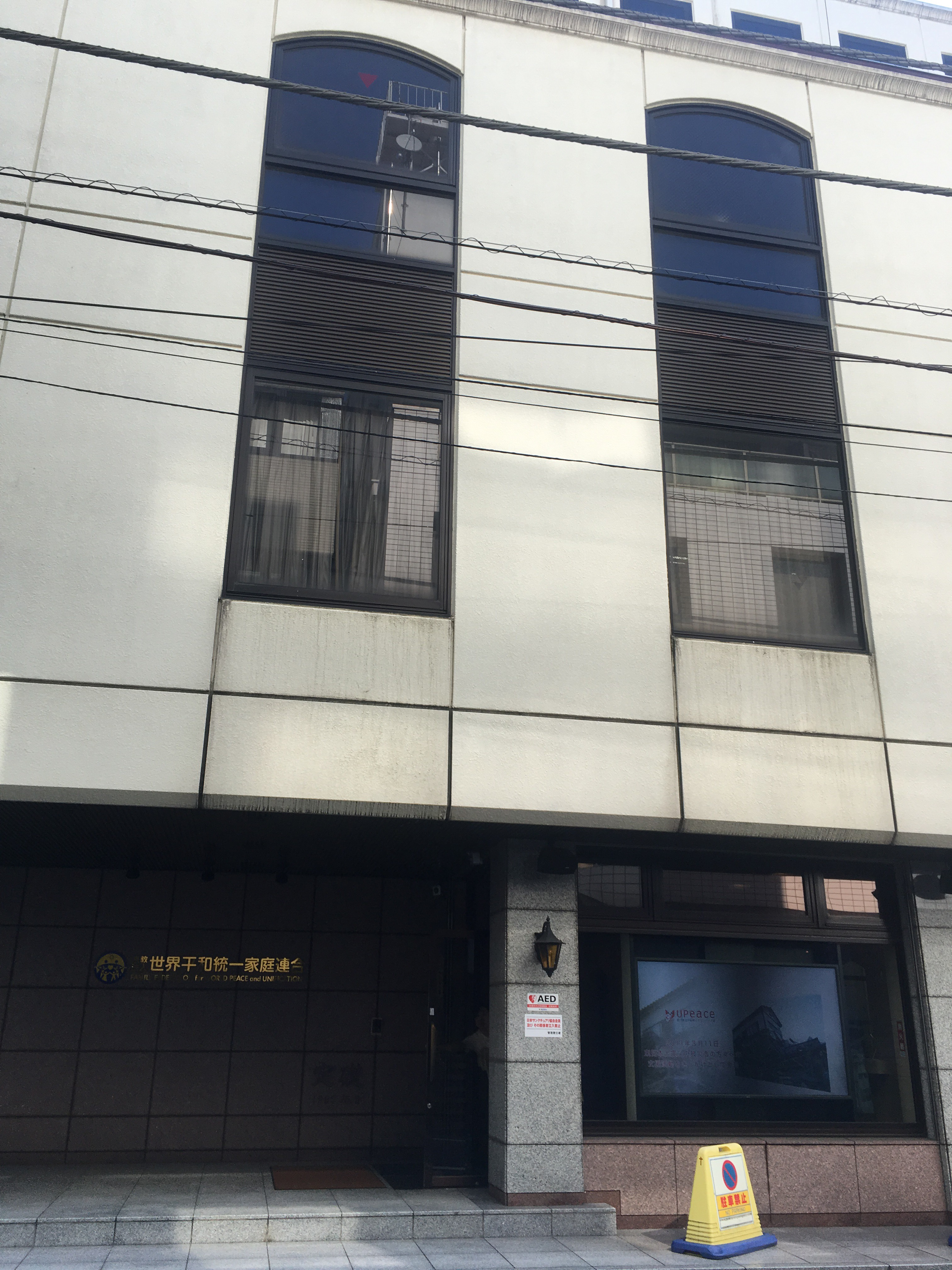 Unification Church